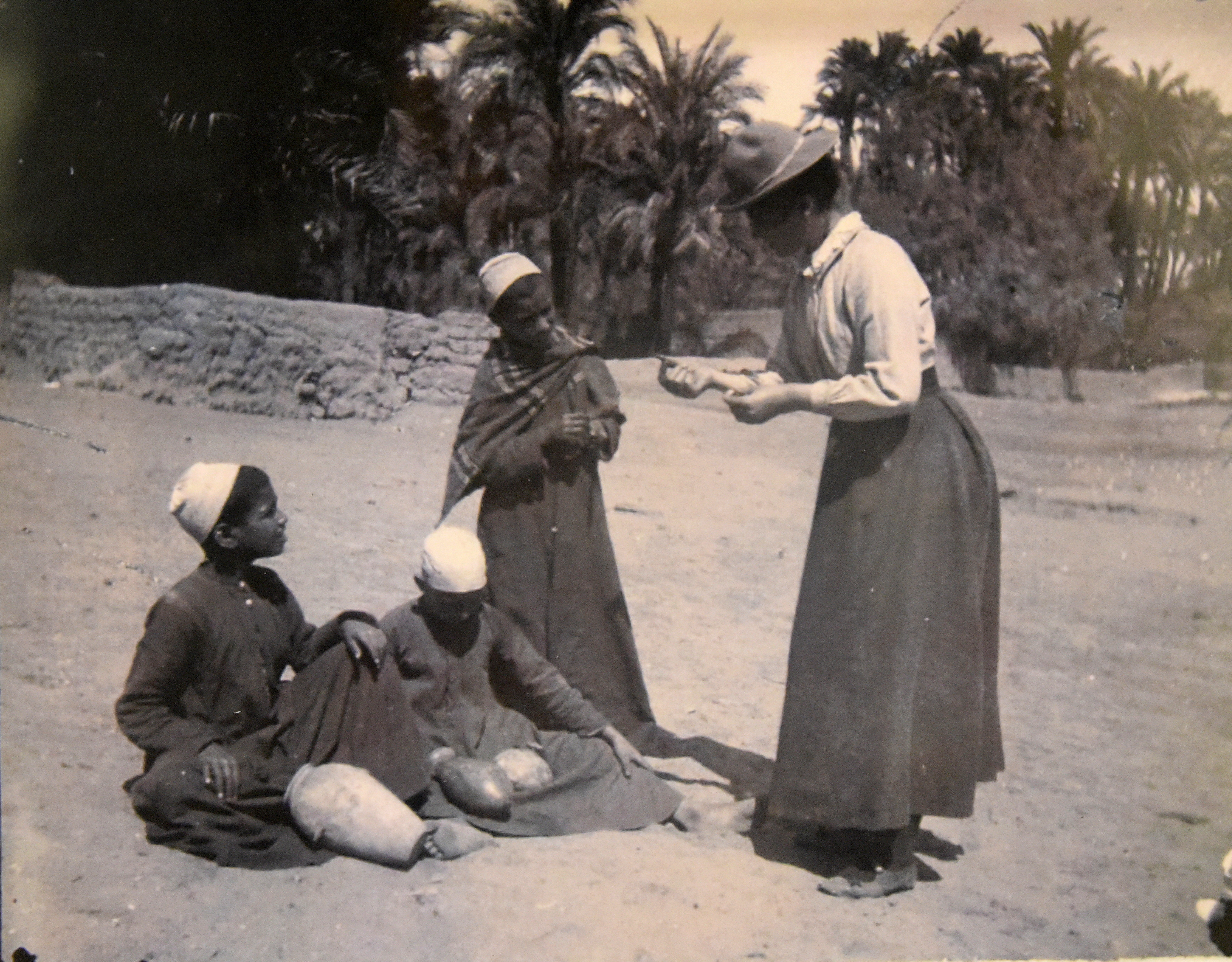 Amy, Flinders Petrie's sister-in-law, buying antiquities at the city of Abydos, Egypt, circa 1899. The name of the photographer was not mentioned. This image is on display a the Petrie Museum and the original image is © The Petrie Museum of Egyptian Archaeology. With thanks to the Petrie Museum of Egyptian Archaeology, UCL, London.